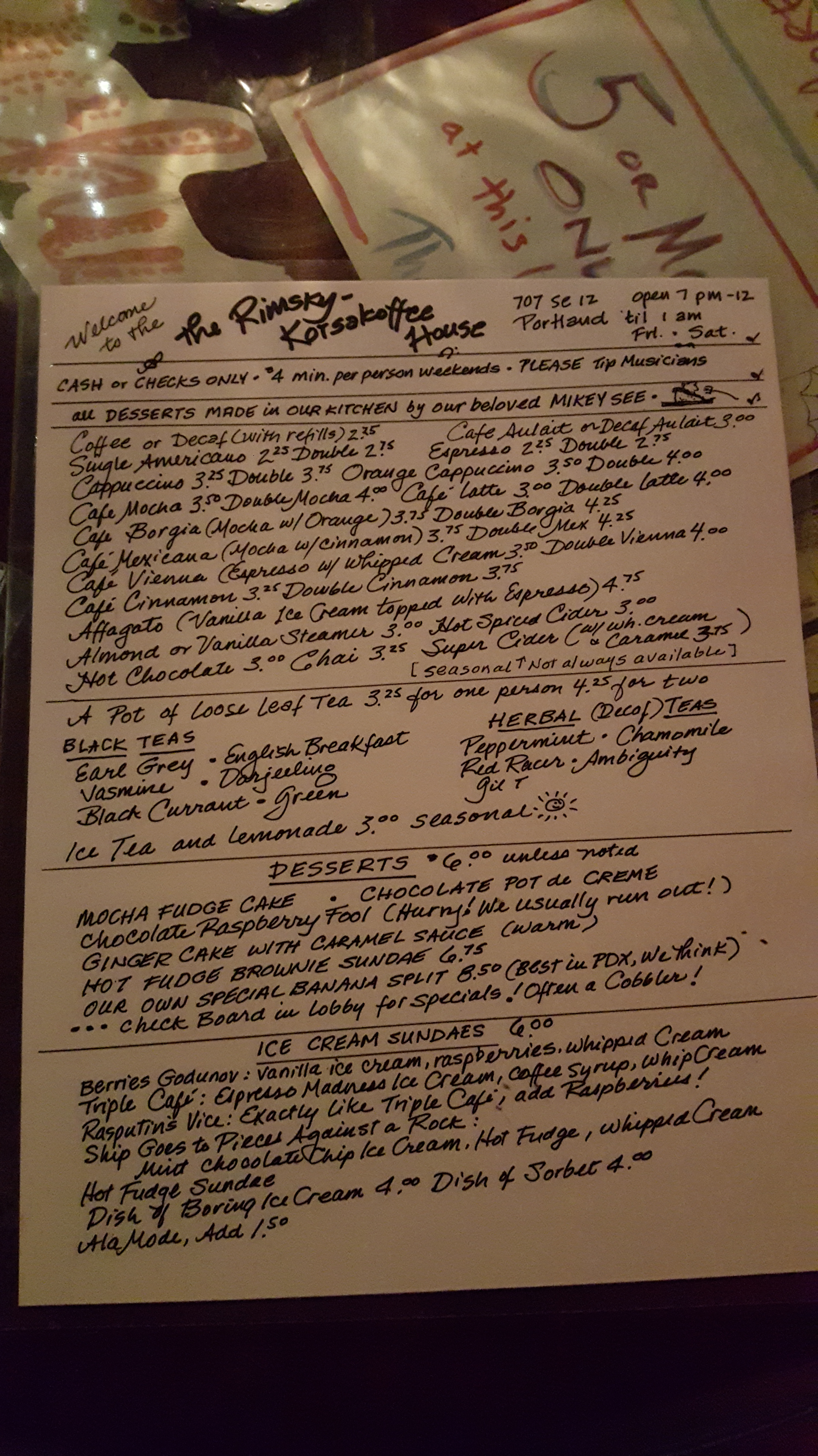 Rimsky-Korsakoffee House menu, Portland, Oregon, 2016